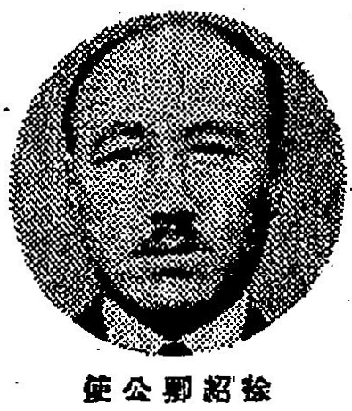 Xu Shaoqing (Shü Shao-ch'ing) (1892 - ?)